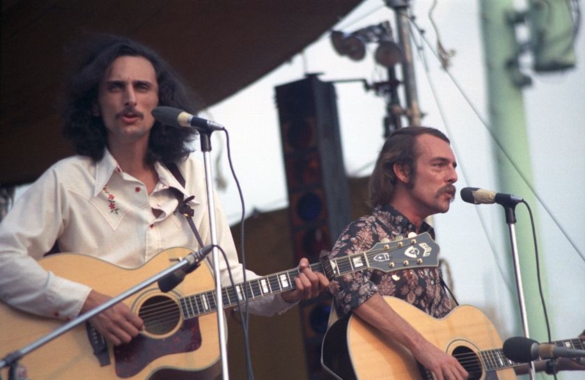 Cambridge, Massachusetts, 1971. Cambridge Common, folk rock band Brewer and Shipley in concert.